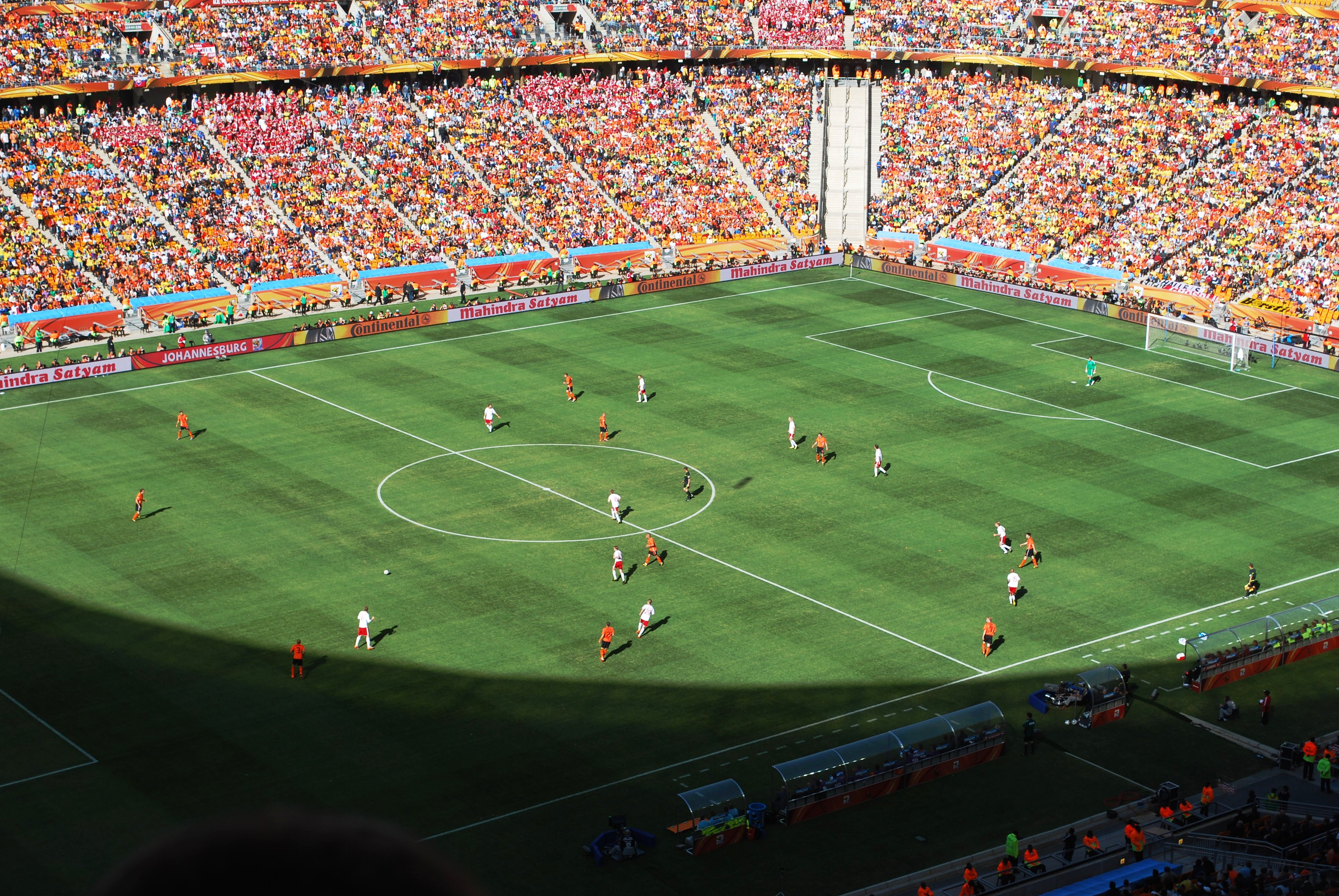 The Netherlands plays Denmark in a World Cup soccer match at Soccer City Stadium in Johannesburg, South Africa, on June 14, 2010.